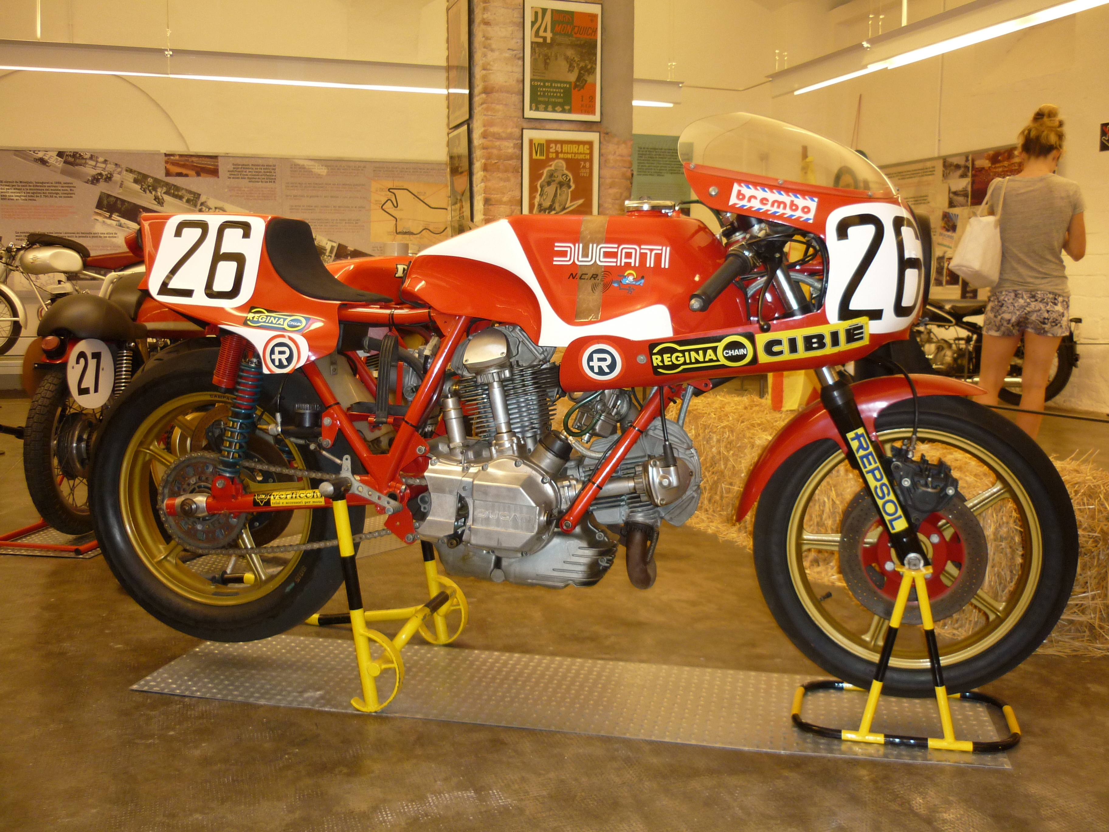 Ducati 900SS 900cc. On this bike, Josep Maria Mallol and Alejandro Tejedo won the XXVI 24 Hours of Montjuïc, on 1980